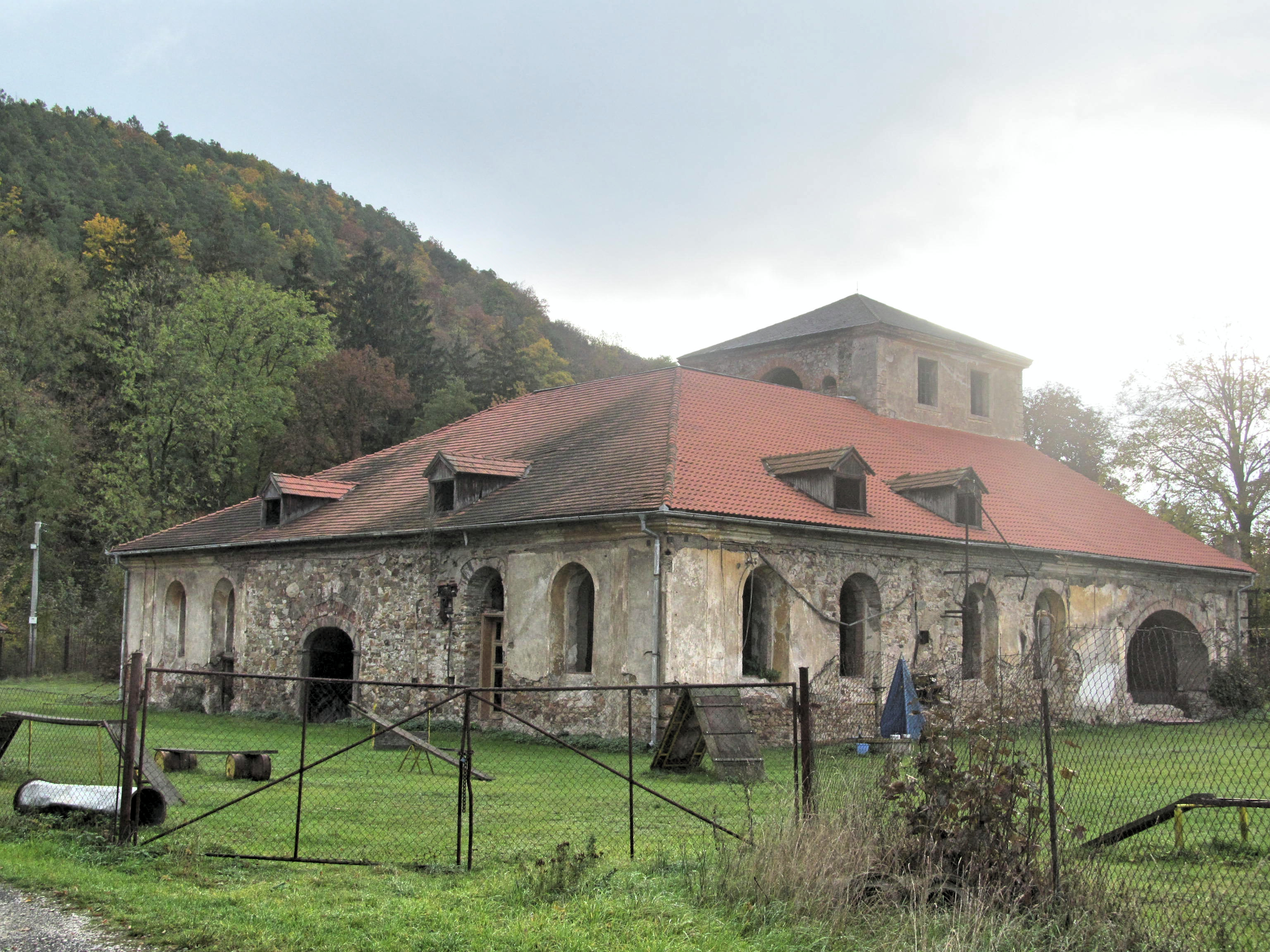 Blast furnace from 1810 in Jince